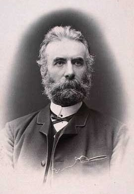 Fredrik Bajer (1837-1922), Danish pacifist and educator, politician, MP, winner of the 1908 Nobel Peace Prize. Married to Matilde Bajer